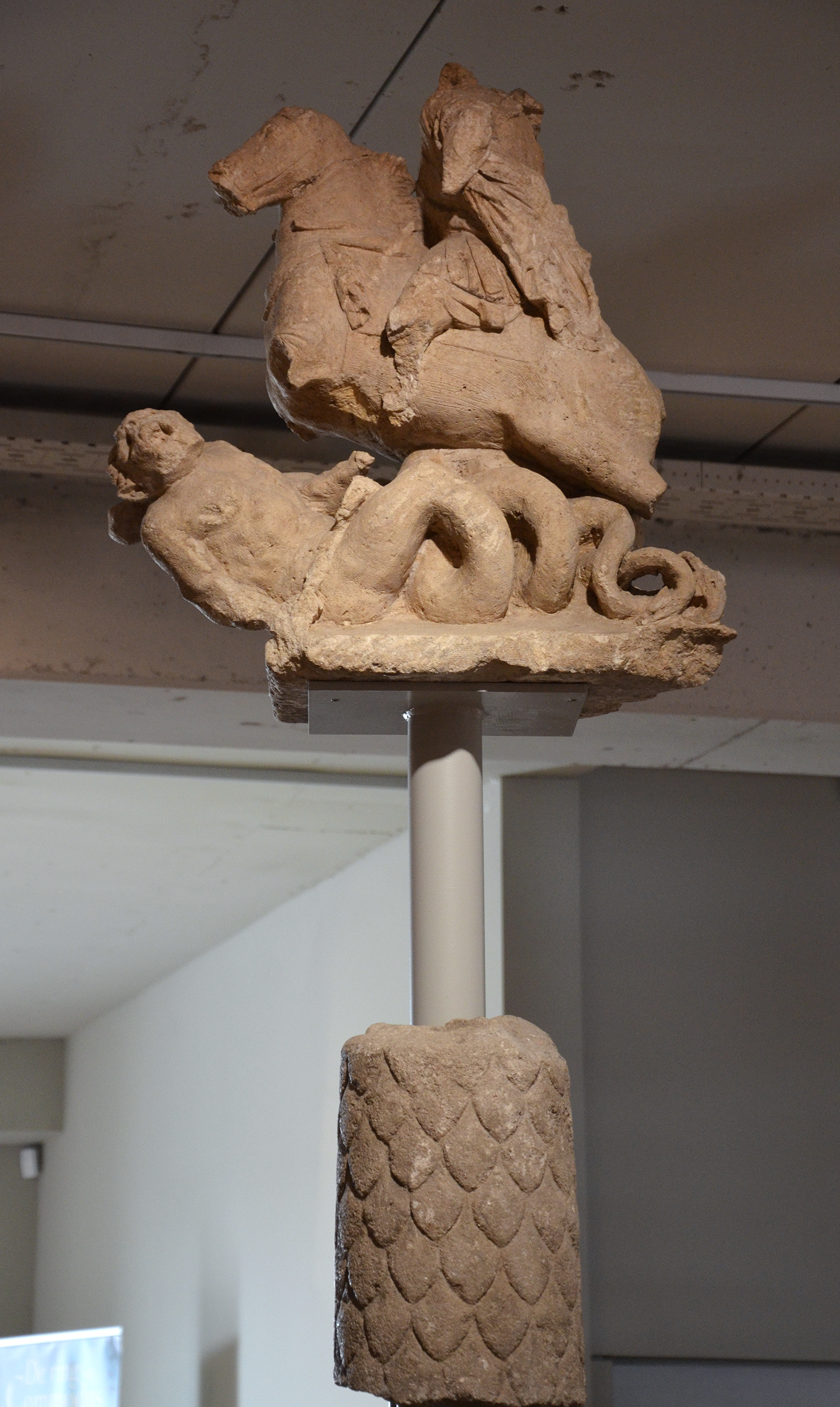 Fragments of a Jupiter Column in Atuatuca Tungrorum (Tongeren), a statue group portraying Jupiter on horseback trampling Giants with serpent bodies, 150-175 AD. Collection of Gallo-Romeins Museum, Tongeren, Belgium.